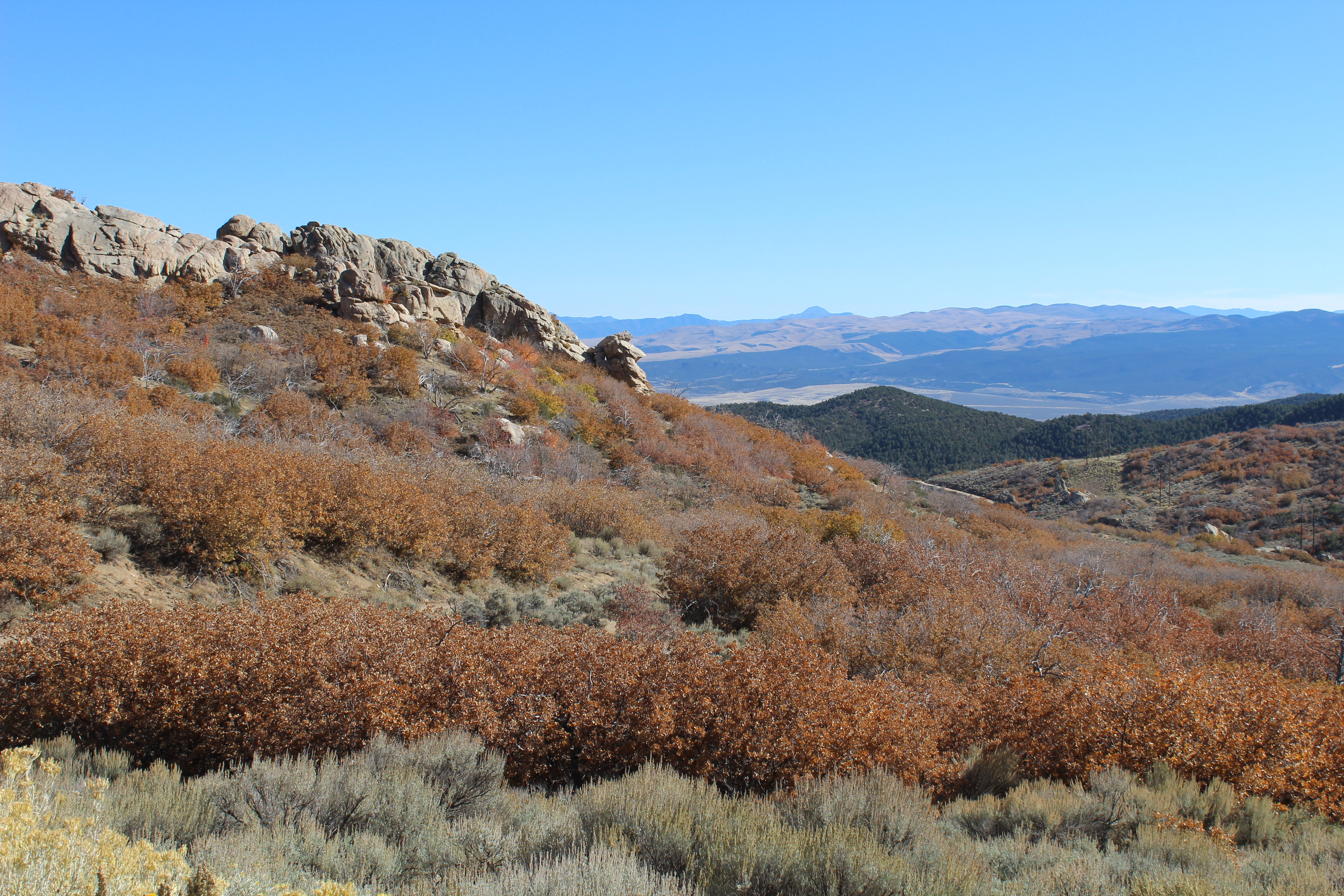 View from Mineral Mountains